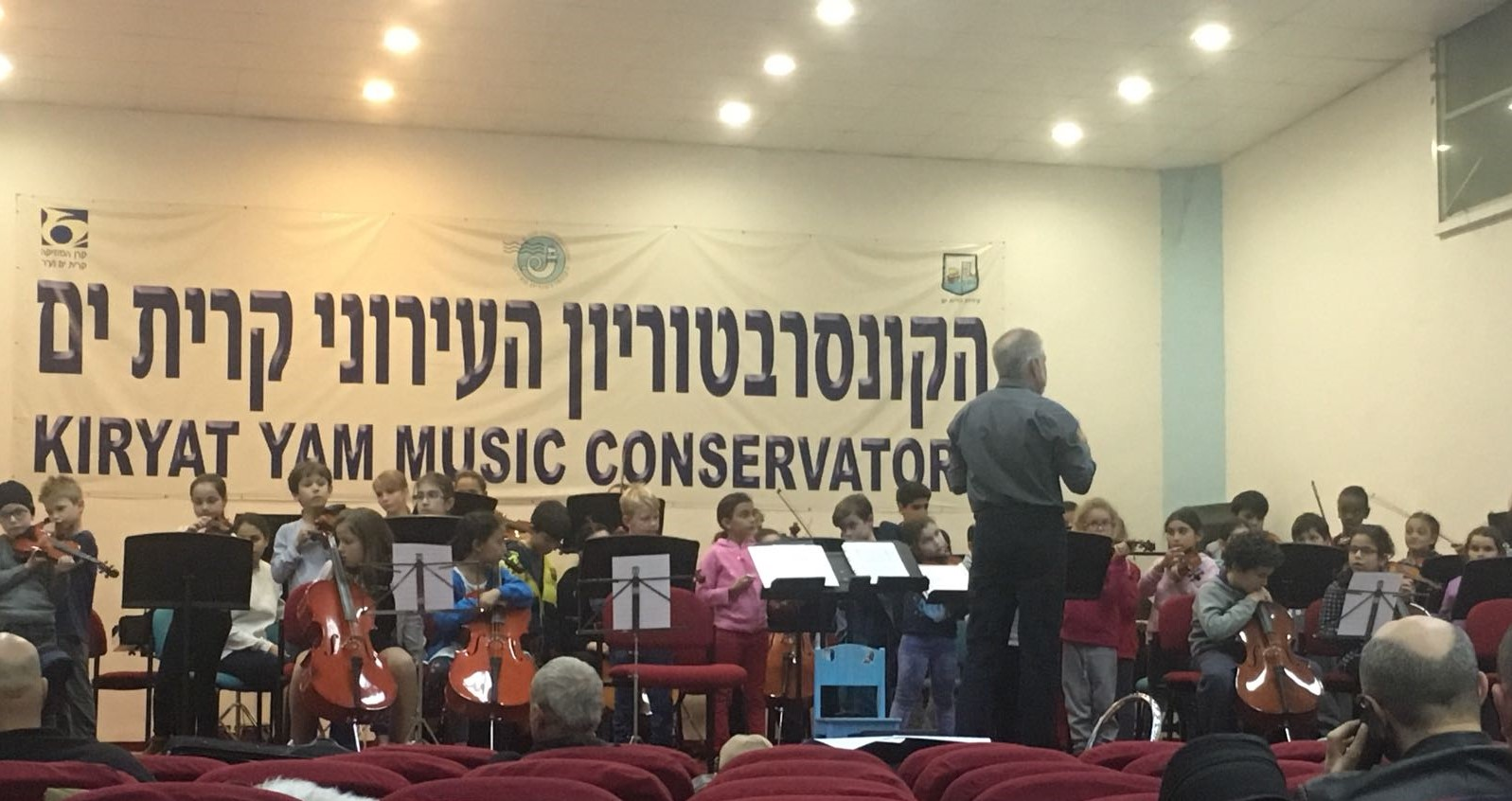 תזמורת כלי קשת